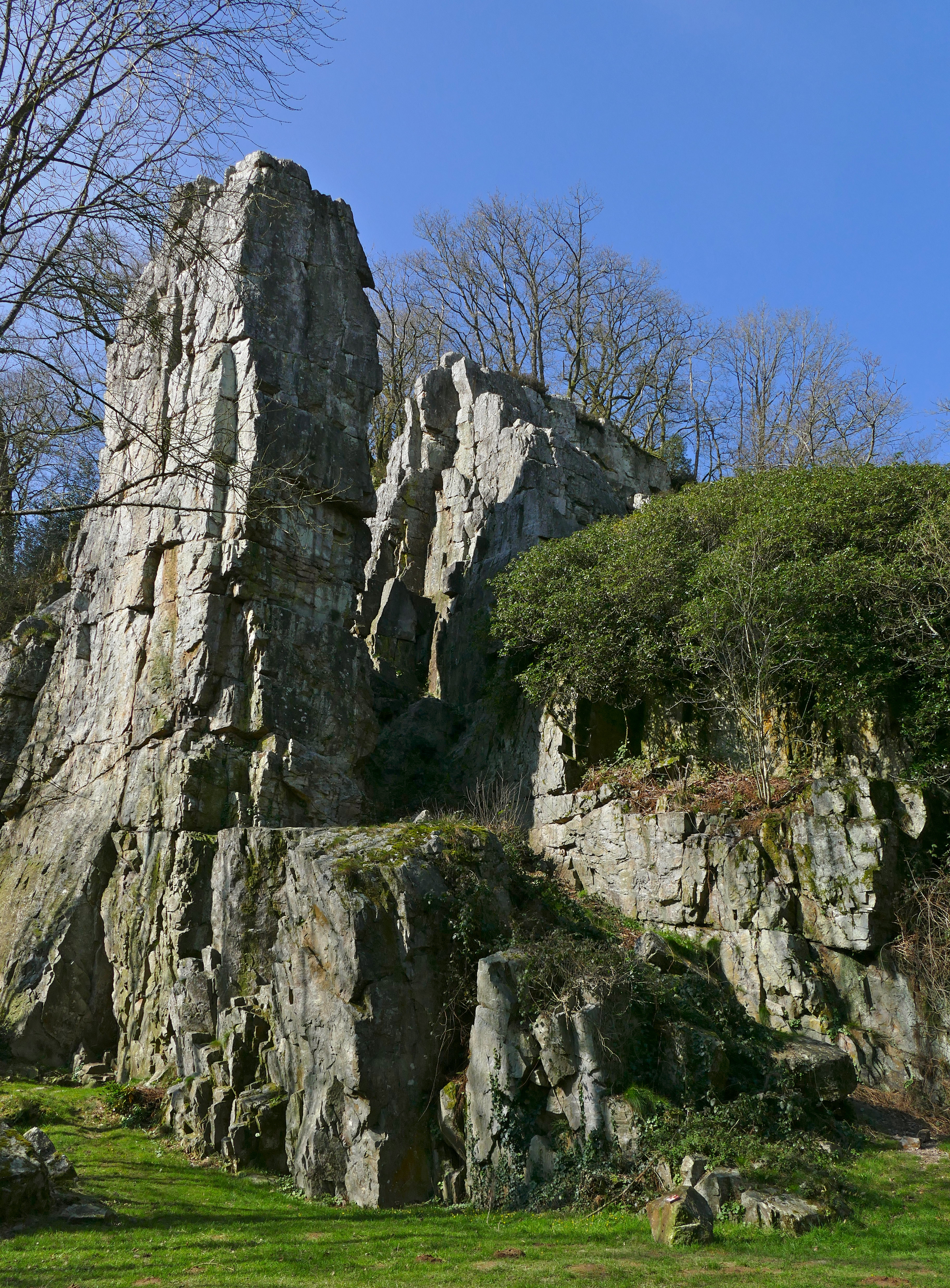 Mortain, Manche, FRANCE